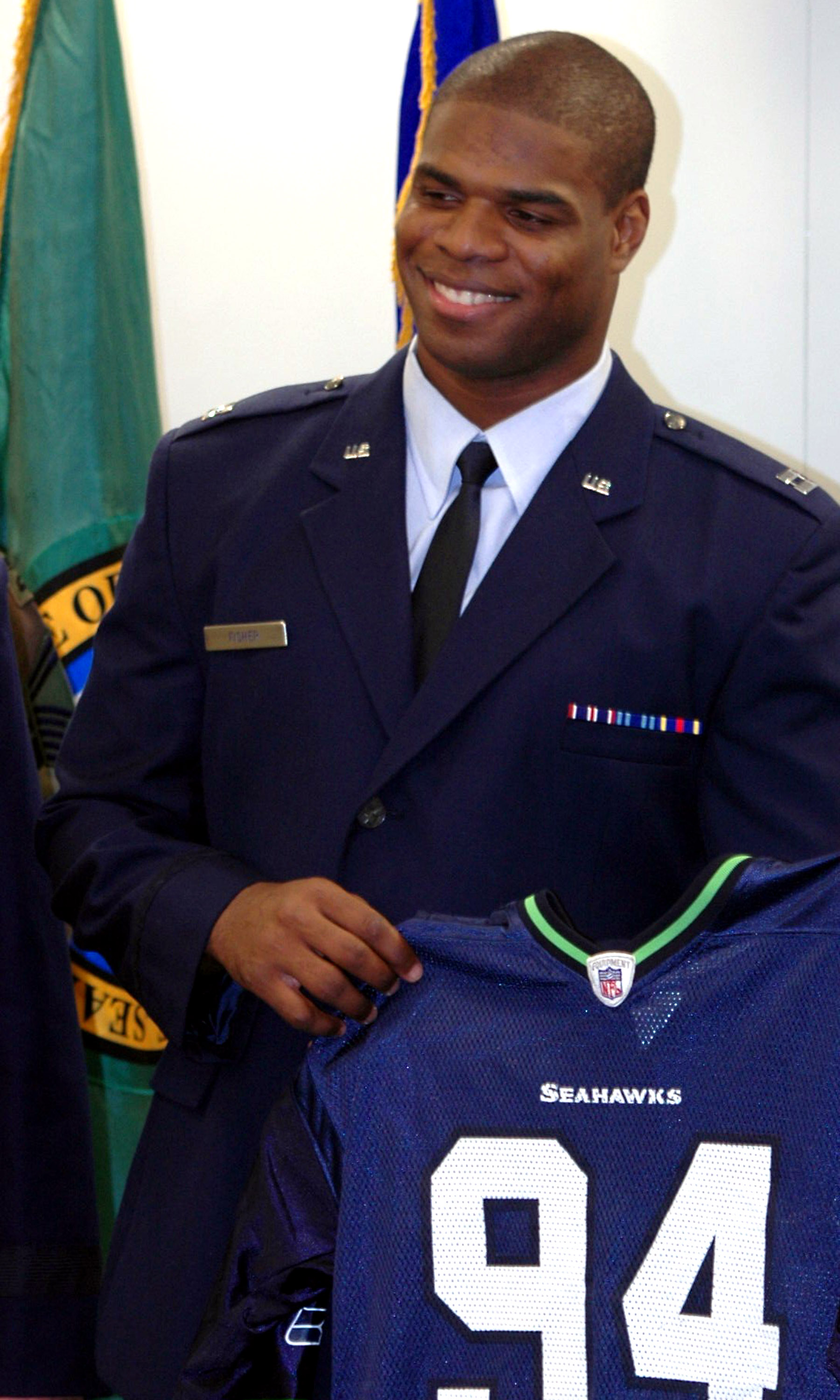 Air National Guard Capt. Bryce Fisher is a 1999 Air Force Academy graduate and starting defensive end for the NFL's Seattle Seahawks.